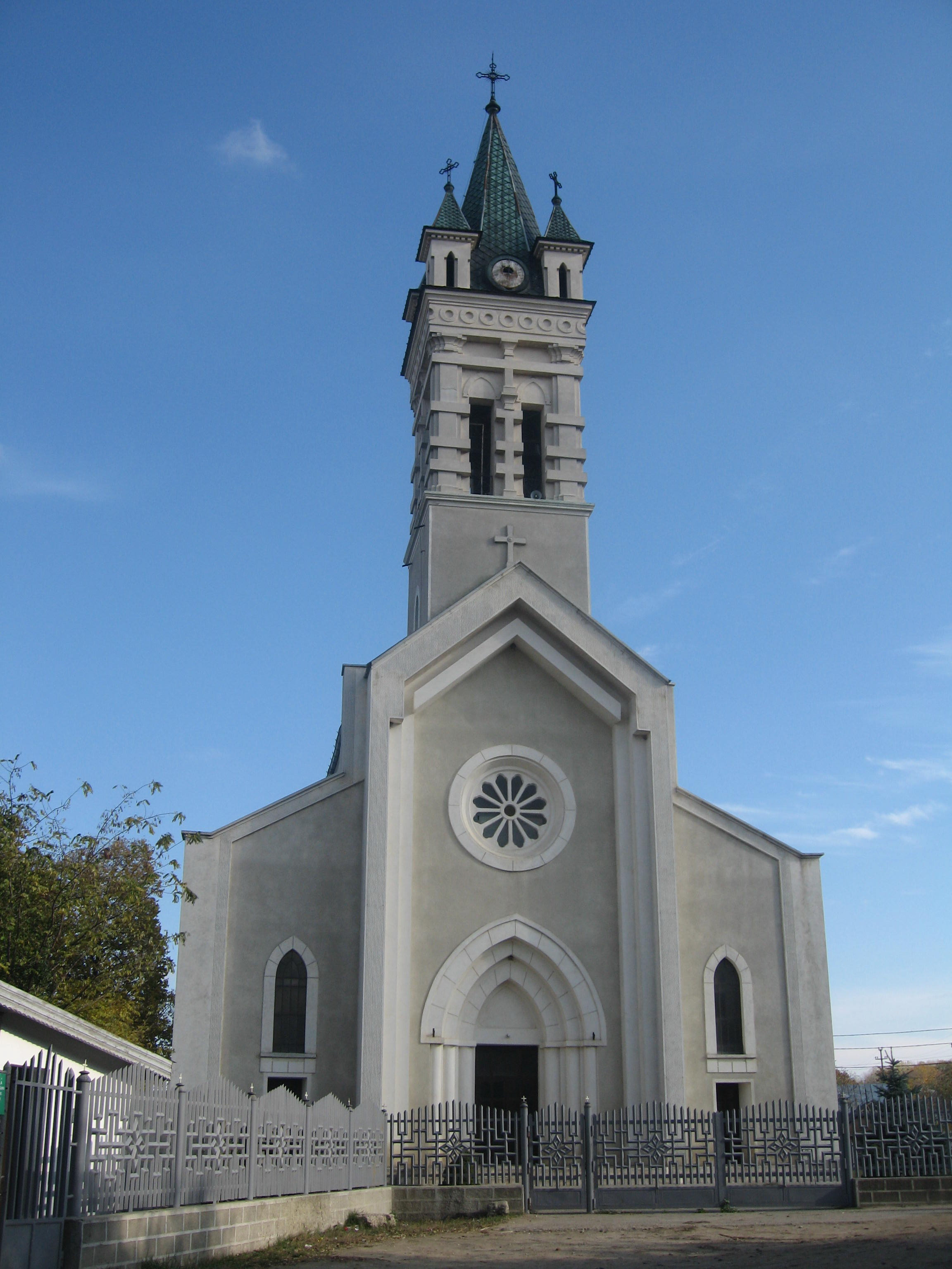 Biserica Sfinţii Apostoli Petru şi Paul din Răducăneni